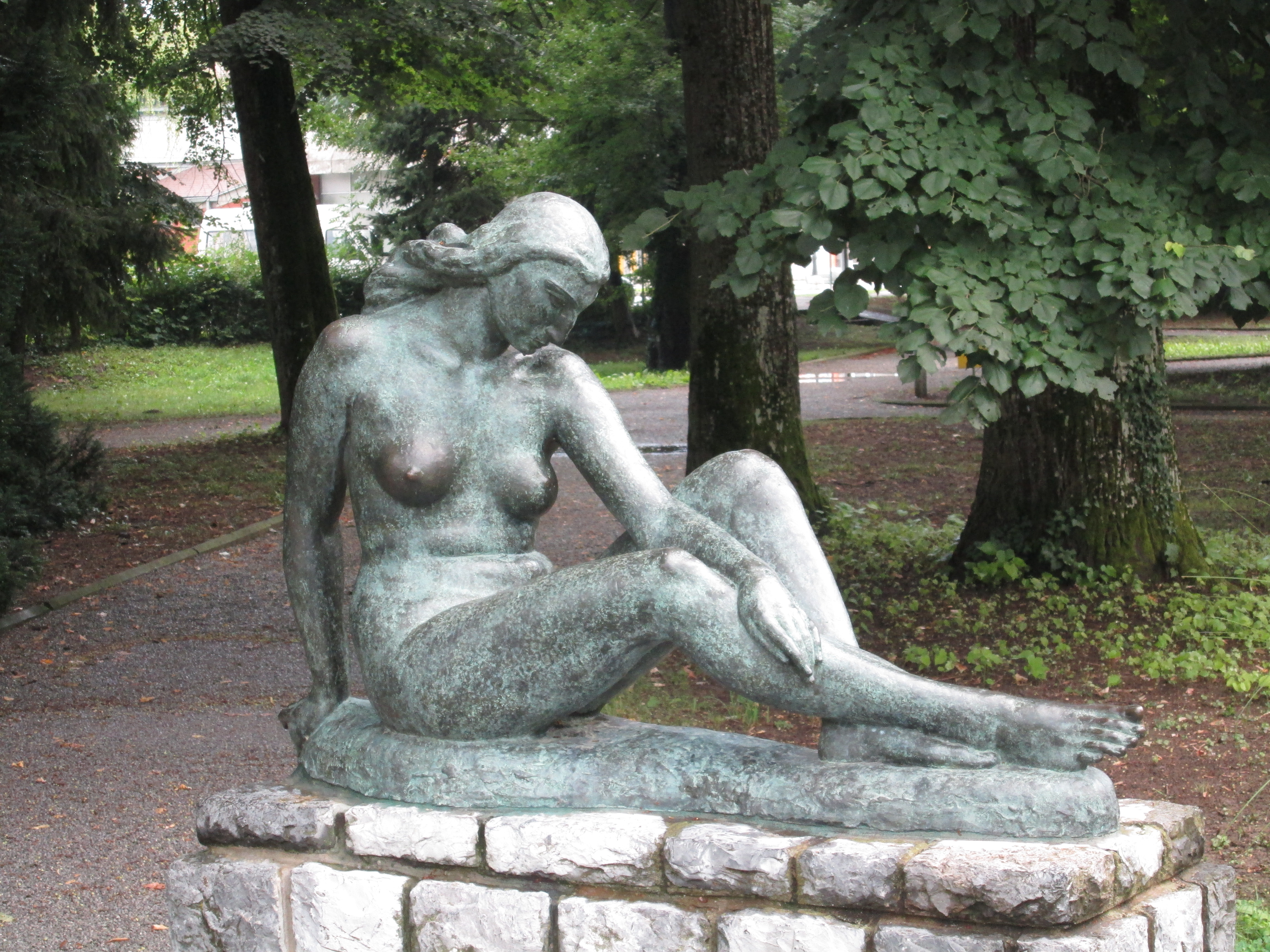 Sculpture: "Naked Maja", by Antun Augustincic, Daruvar Spa, Croatia